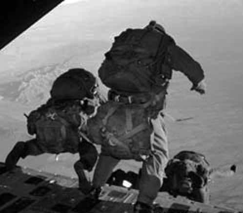 U.S. Air force photograph of U.S. Army paratroopers jumping from a C-130, flying 25,000 feet over the Arizona desert. Photo by Master Sergeant Val Gempis. McKenna, Pat (July 1997). A Bad Altitude. Airman. United States Air Force. United States of America.